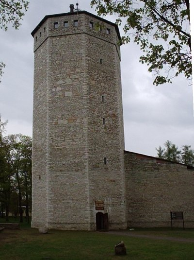 Castle in Paide